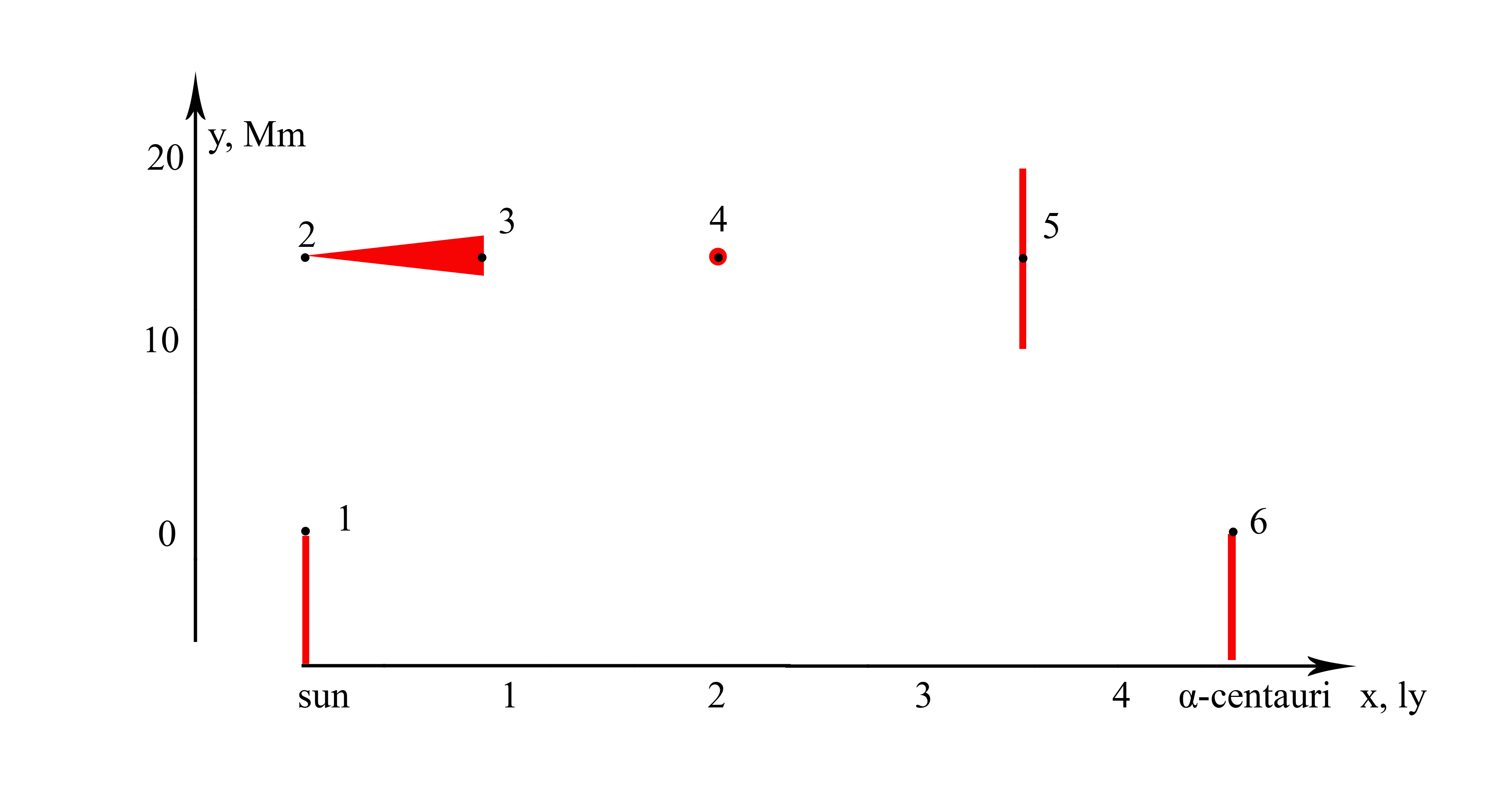 Model interstellar travel (DTM 2.1. from "The theory of expansions of information systems")